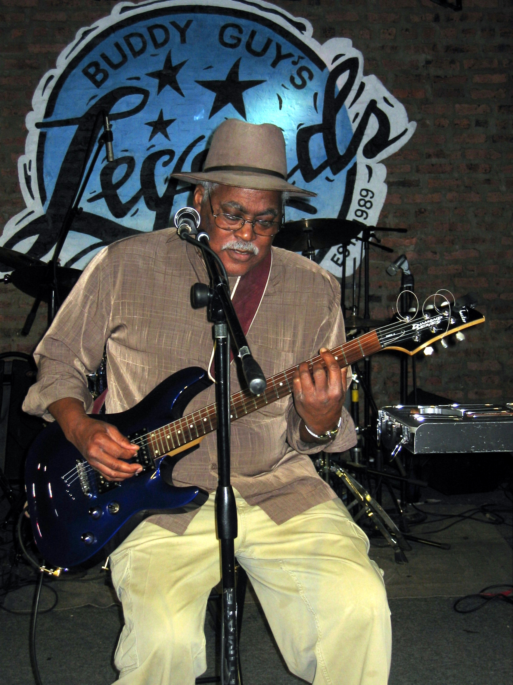 Jimmy Burns hosting a Monday night jam session at Buddy Guy's Legends on December 17, 2012.